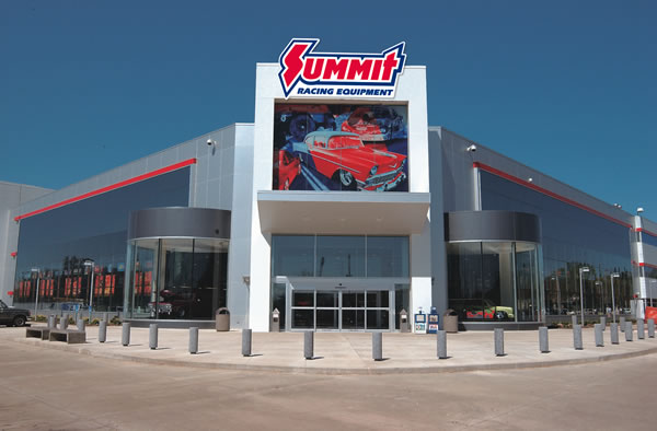 Summit Racing Equipment Retail Store